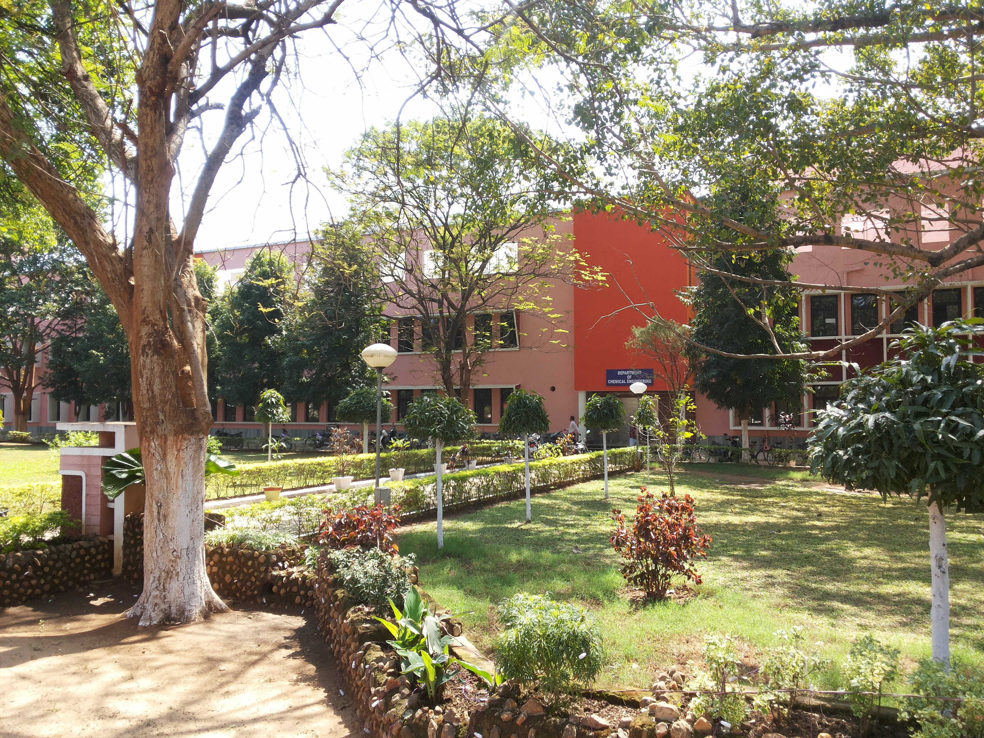 The revamped chemical engineering department at NITR